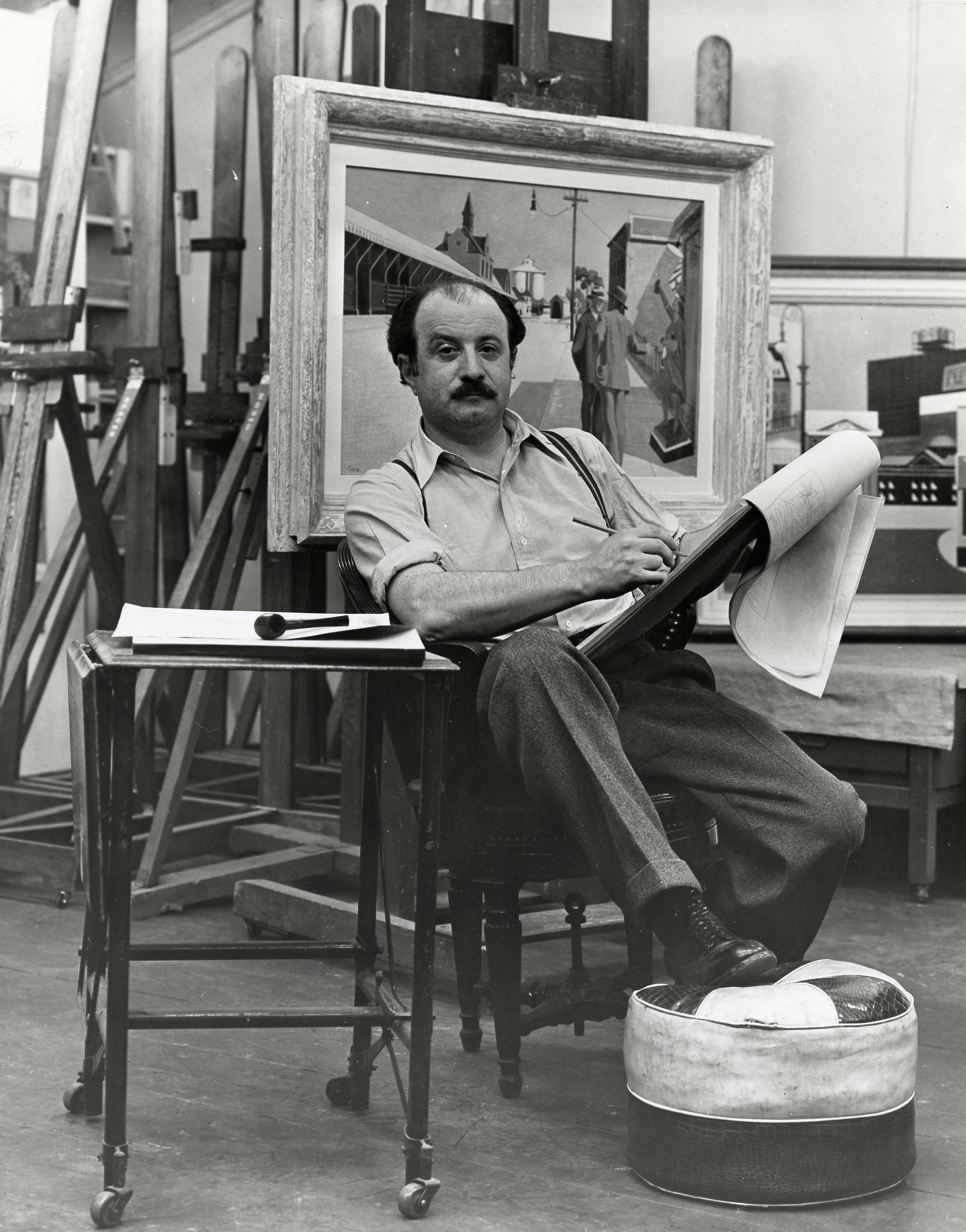 Criss in his studio working on a sketch for Art Week for the New York City W.P.A. Art Project. Identification on verso (handwritten and stamped): New York City W.P.A. Art Project; Photography Division; 110 King Street Negative No: 5353-4; Date: 10/29/40; Title: Pub. Shots for Art Week; Location: 48 E. 9 St., Man.; Photographer: Yavno; No: 65-1-97-2063.